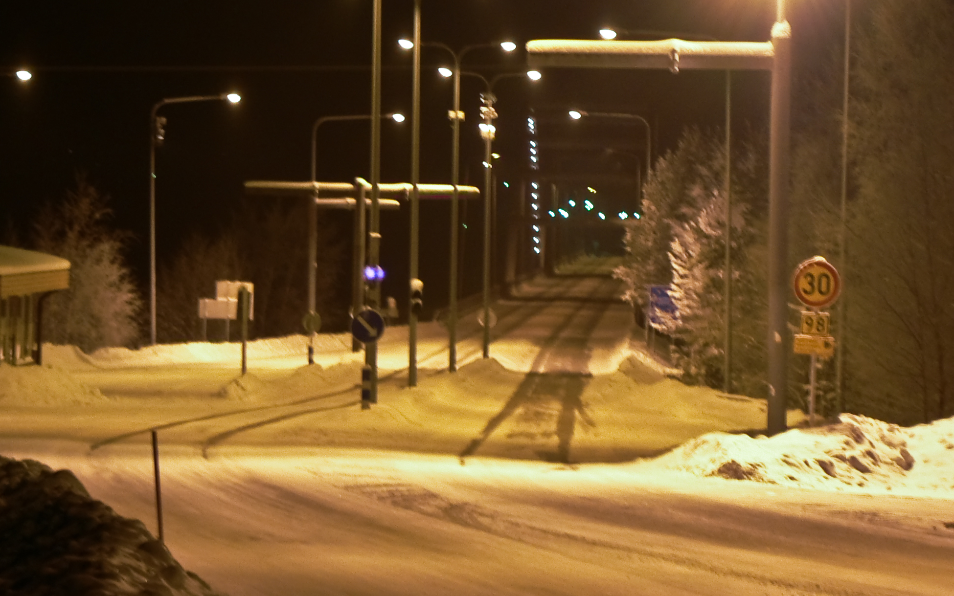 Highway 98 (2nd class) in Aavasaksa, Ylitornio, Finland.